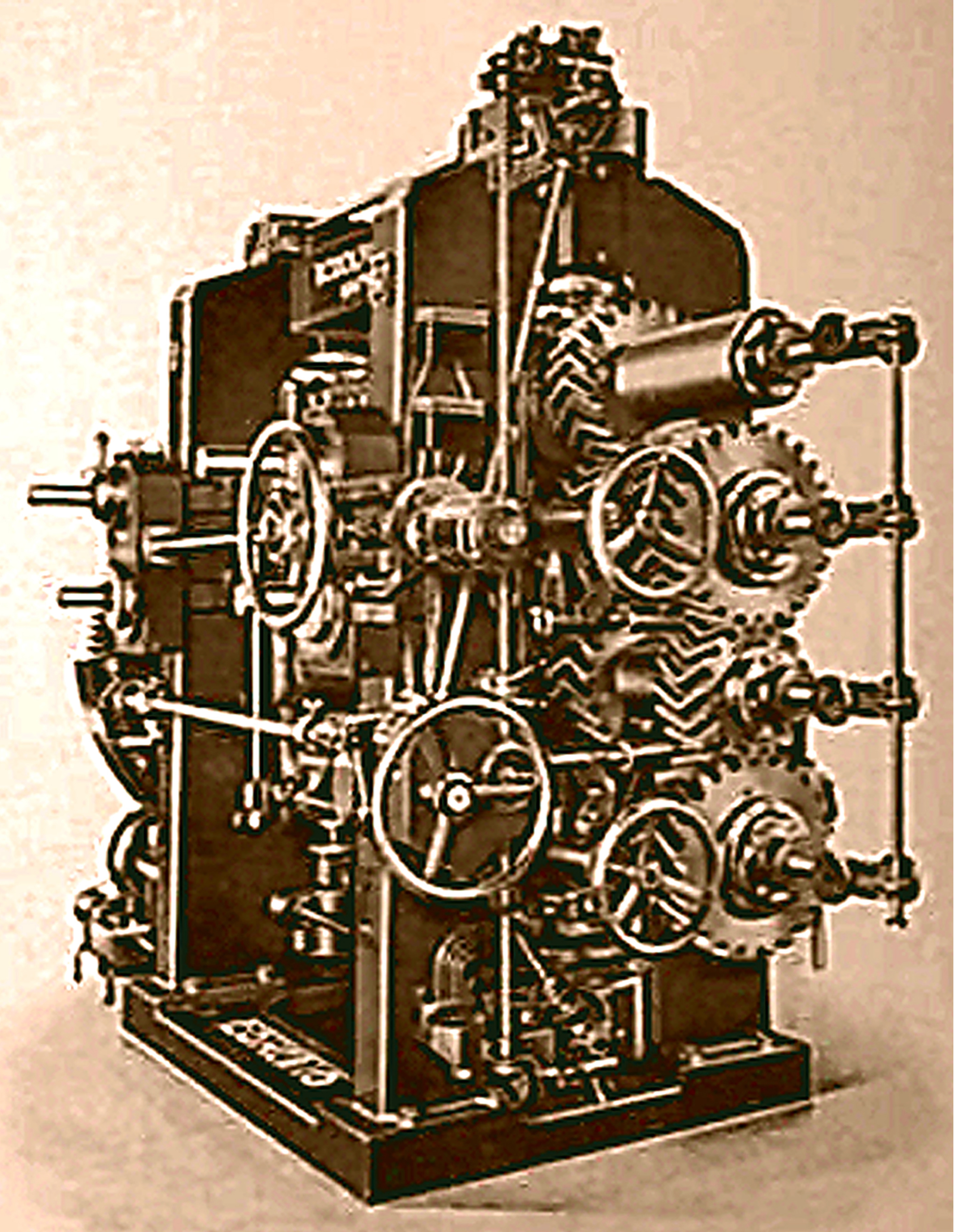 Picture of the first 3-roll calender for rubber, manufactured by Rodolfo Comerio in 1925 for Pirelly Indistries, Milan